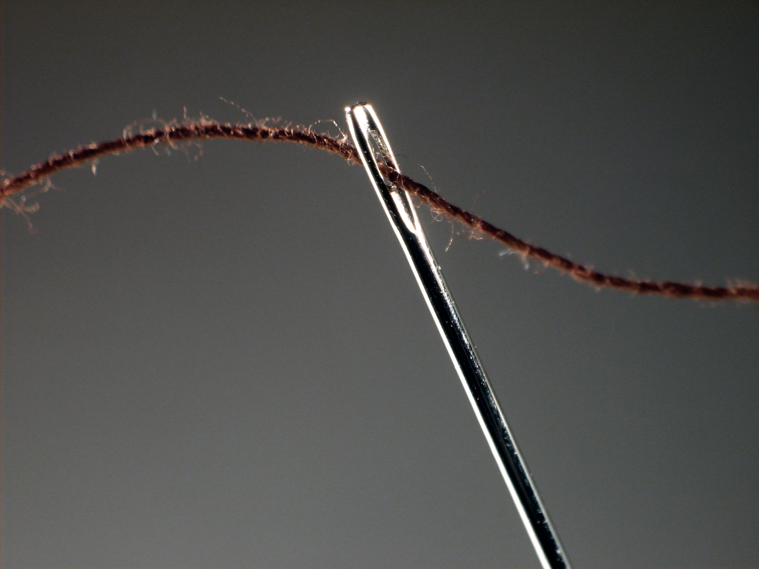 A threaded needle.